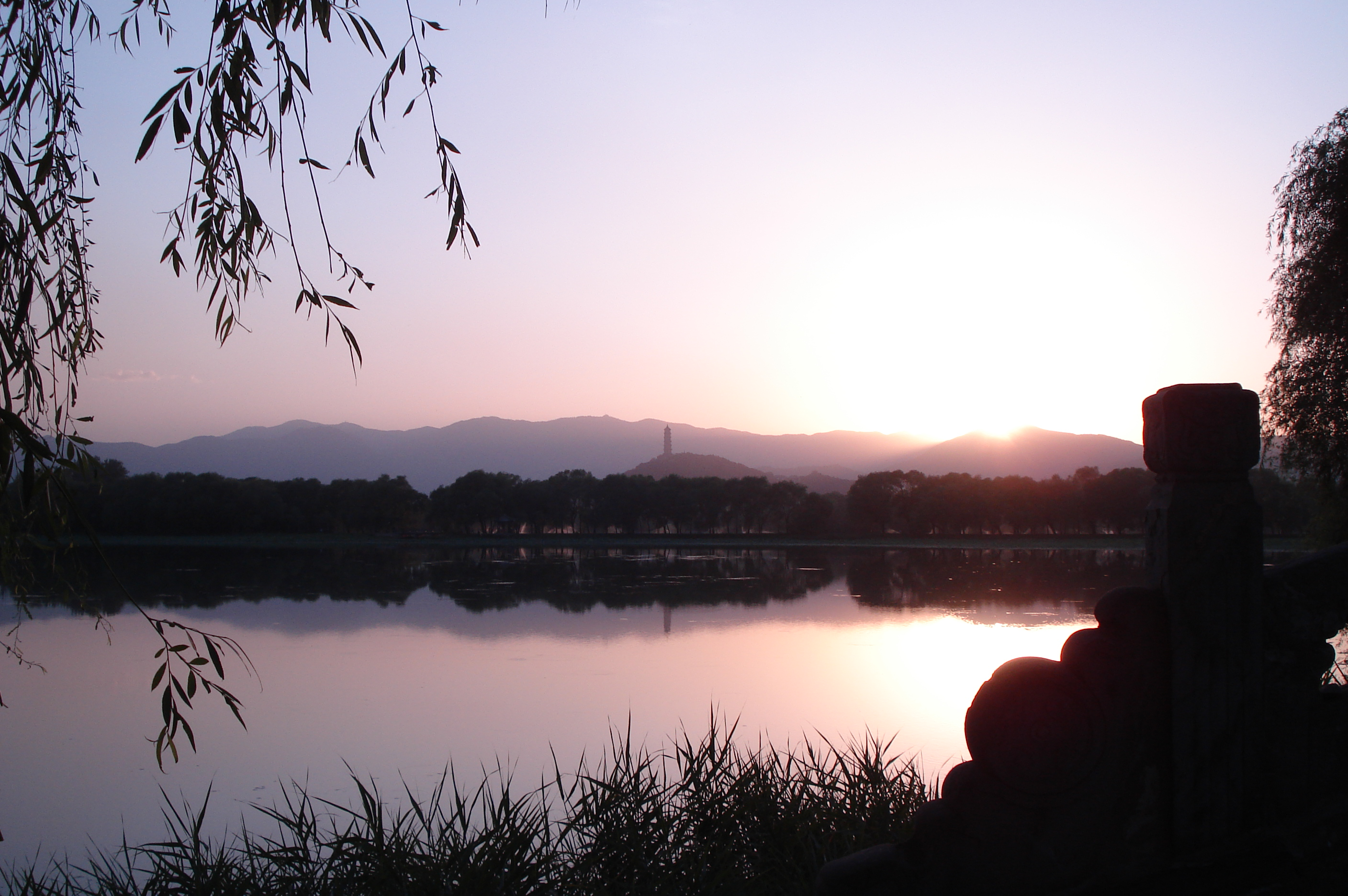 Tower of West Lake and mountain sunset views in Summer Palace